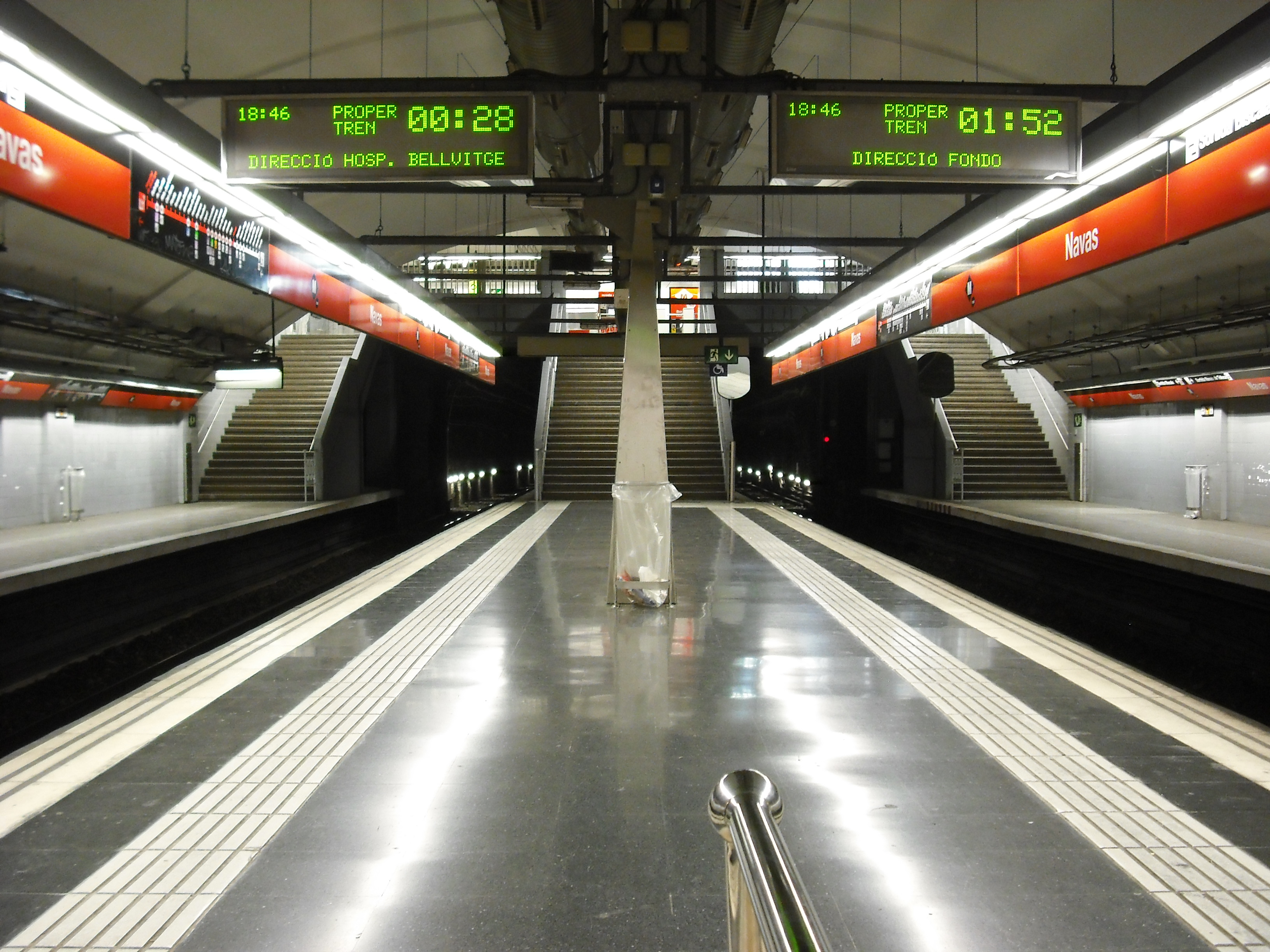 Shot of Navas station at Barcelona Metro.